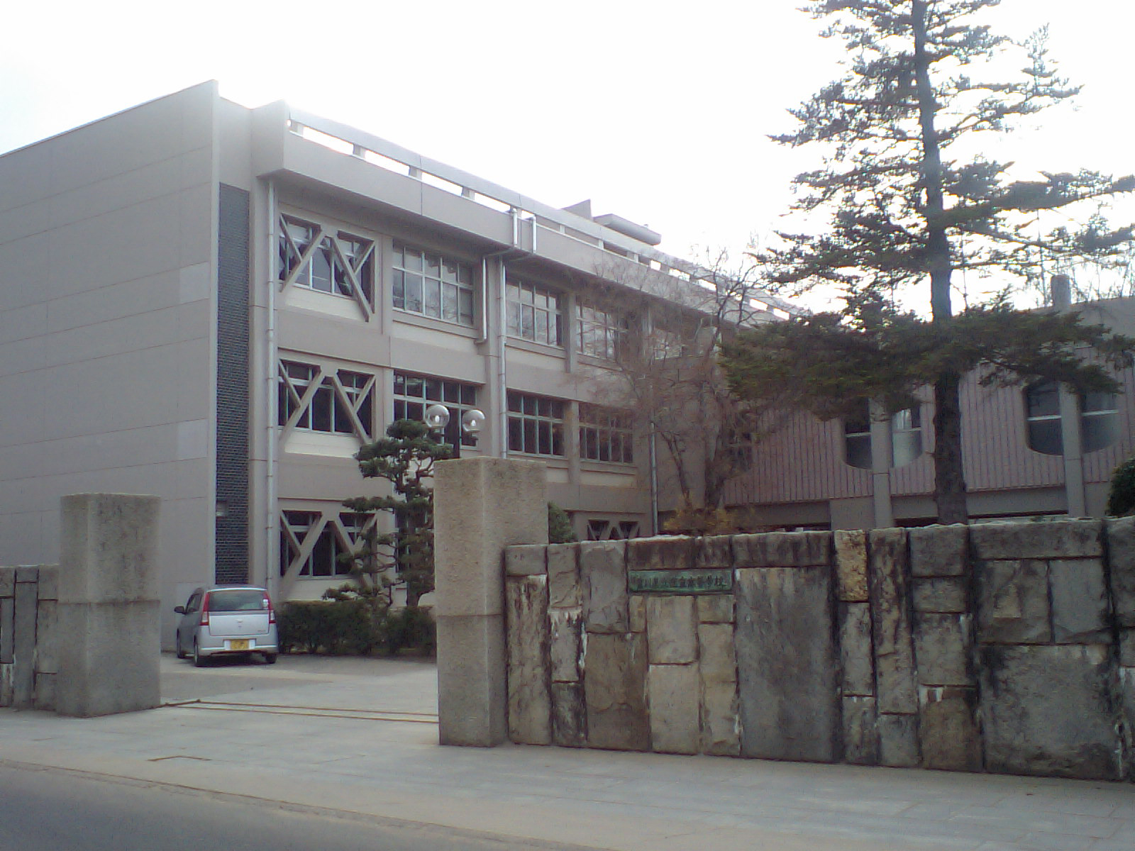 Kagawa prefectural Shido high school